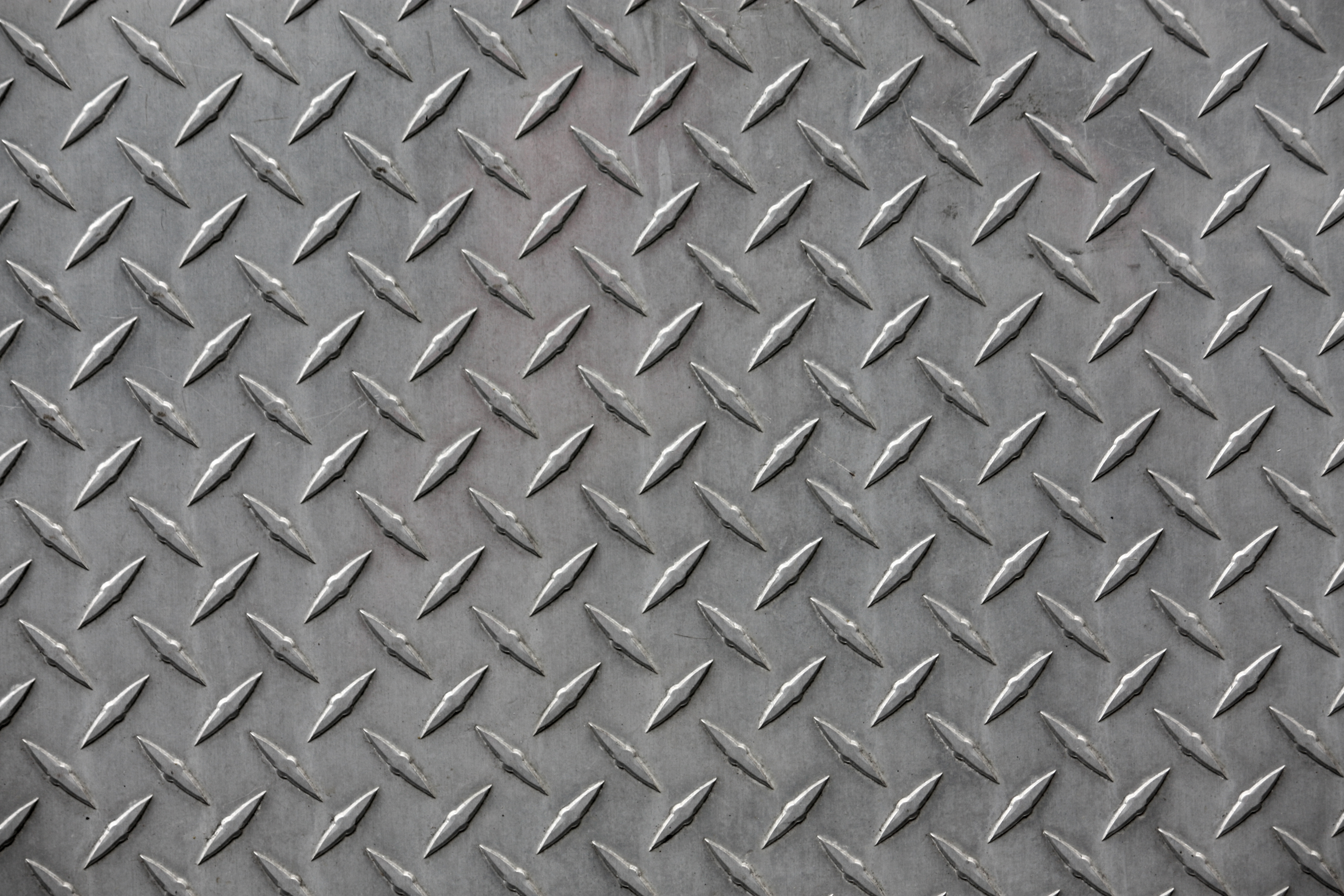 Picture of a Diamond Plate